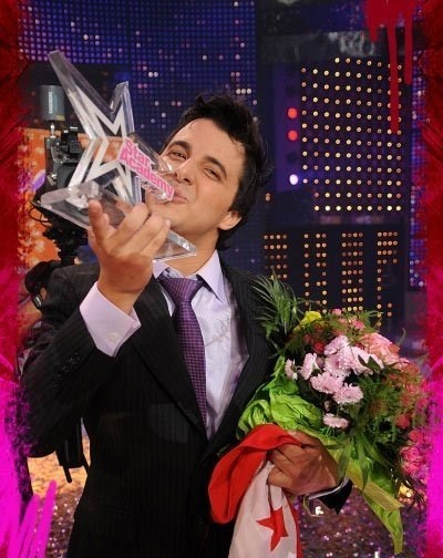 2008 Arab Star Academy Winning Photo